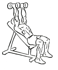 an exercise of triceps